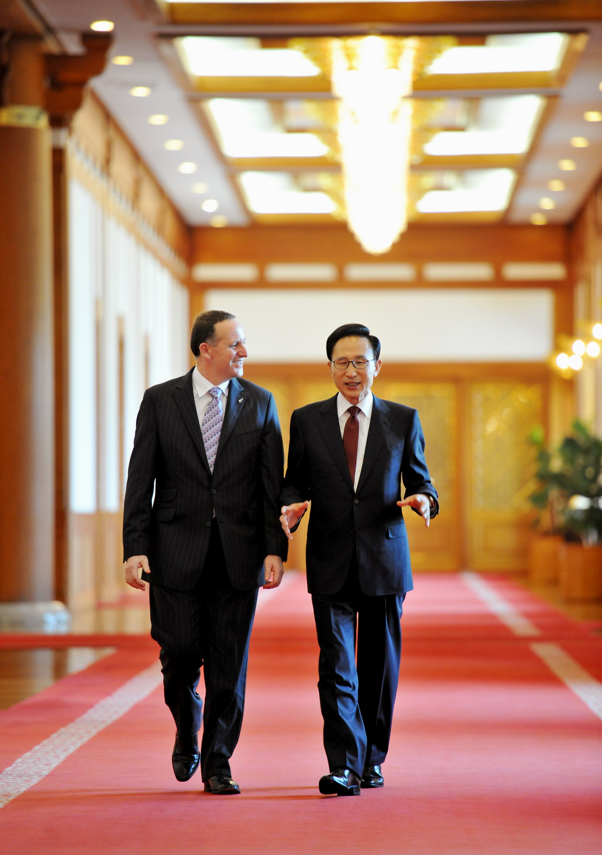 President Lee Myung-bak(r) and the visiting Prime Minister of New Zealand John Key(l)